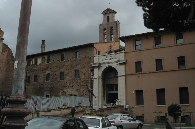 Ss. Cosmas of Damian, Roma